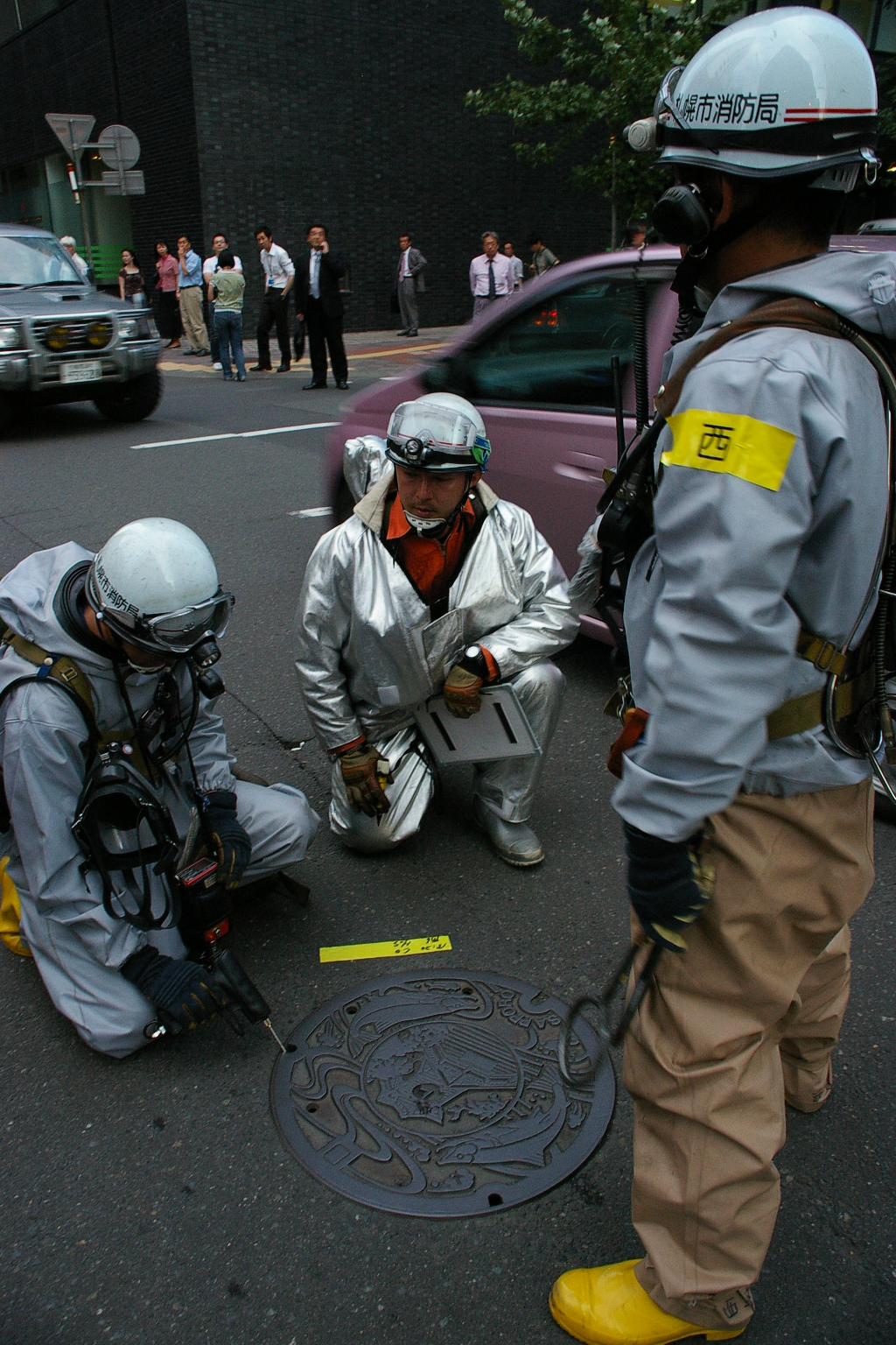 Poisonous gas detection, Sapporo fire bureau.